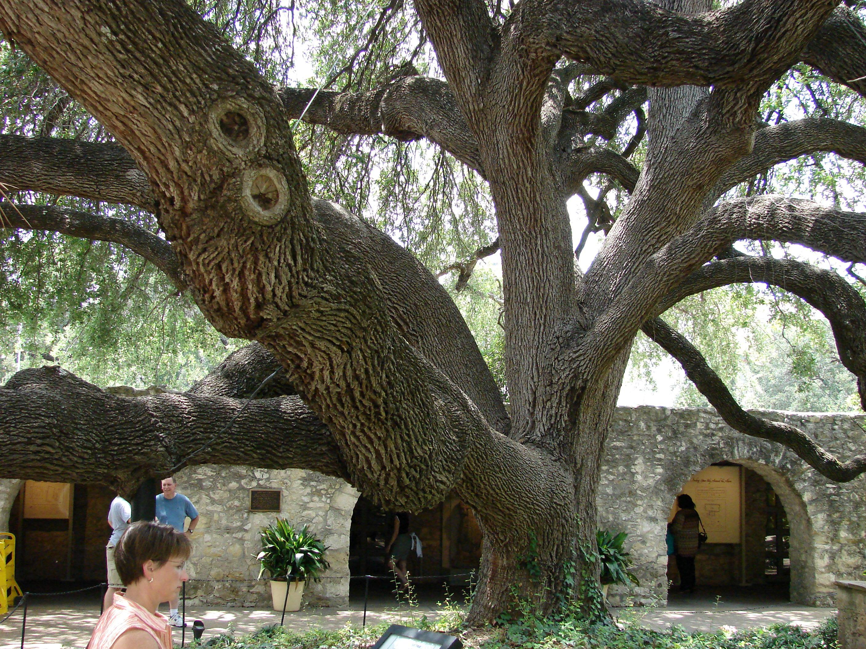 An old Texas Live Oak at the Alamo. Photo taken by me, July 2006.